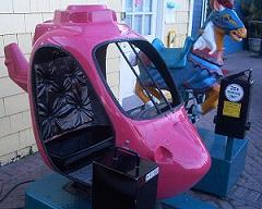 Coin operated helicopter and horse kid's amusement ride